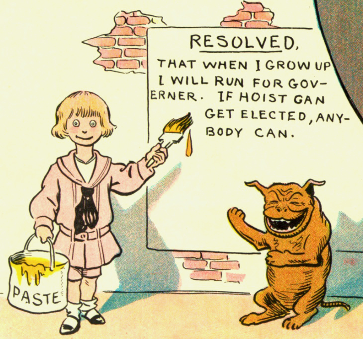 Political cartoon, Hoist, the friend of the Comic People. by Louis M. Glackens for Puck magazine, October 31, 1906. The characters seen, clockwise are: Foxy Grandpa by Carl E. Schultze, Alphonse and Gaston by Frederick Burr Opper, Happy Hooligan by Frederick Burr Opper, And Her Name Was Maud by Frederick Burr Opper, The Katzenjammer Kids by Rudolph Dirks, Buster Brown by Richard Felton Outcault, and at the center, all of the characters having a "rally" with "Hoist" sitting on the back of Maud, the mule. "Hoist" was William Randolph Hearst, who was the publisher of many newspapers--all of the comic characters in the illustration appeared in Hearst-owned newspapers. W. R, Hearst ran for governor of New York State in 1906; his opponent (and the winner of the election) was Charles Evans Hughes.